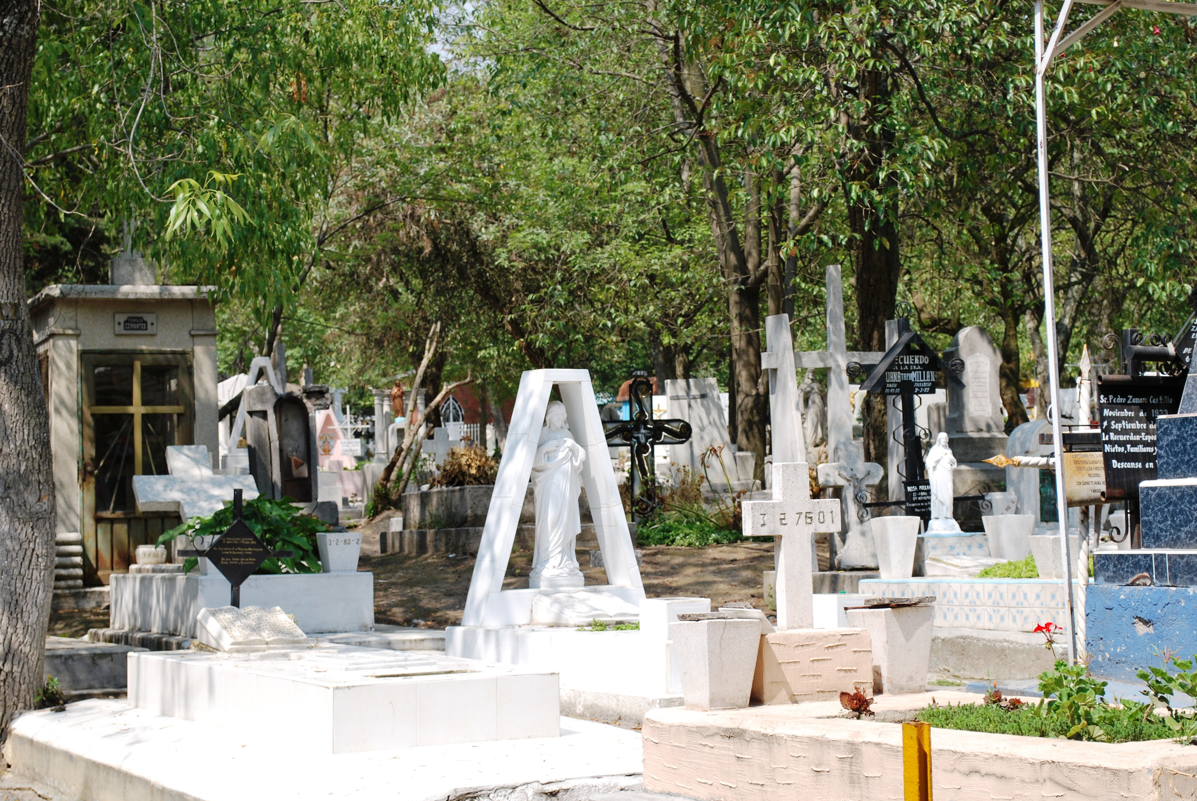 Crowded gravesites at the Panteon Civil de Dolores cemetery in Mexico City